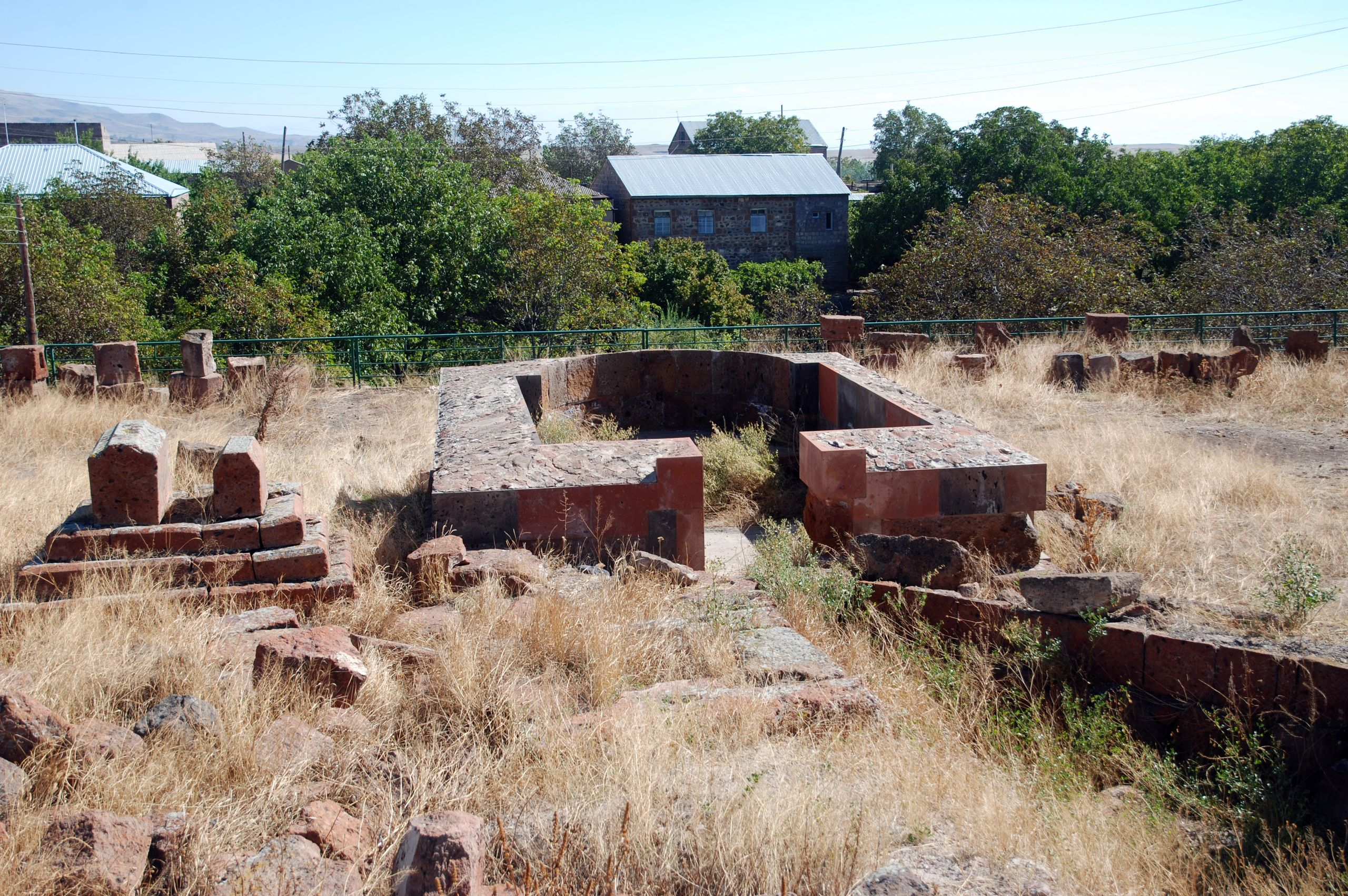 Aruch, chapel near cathedral